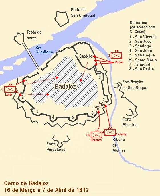 Map of the siege of Badajoz